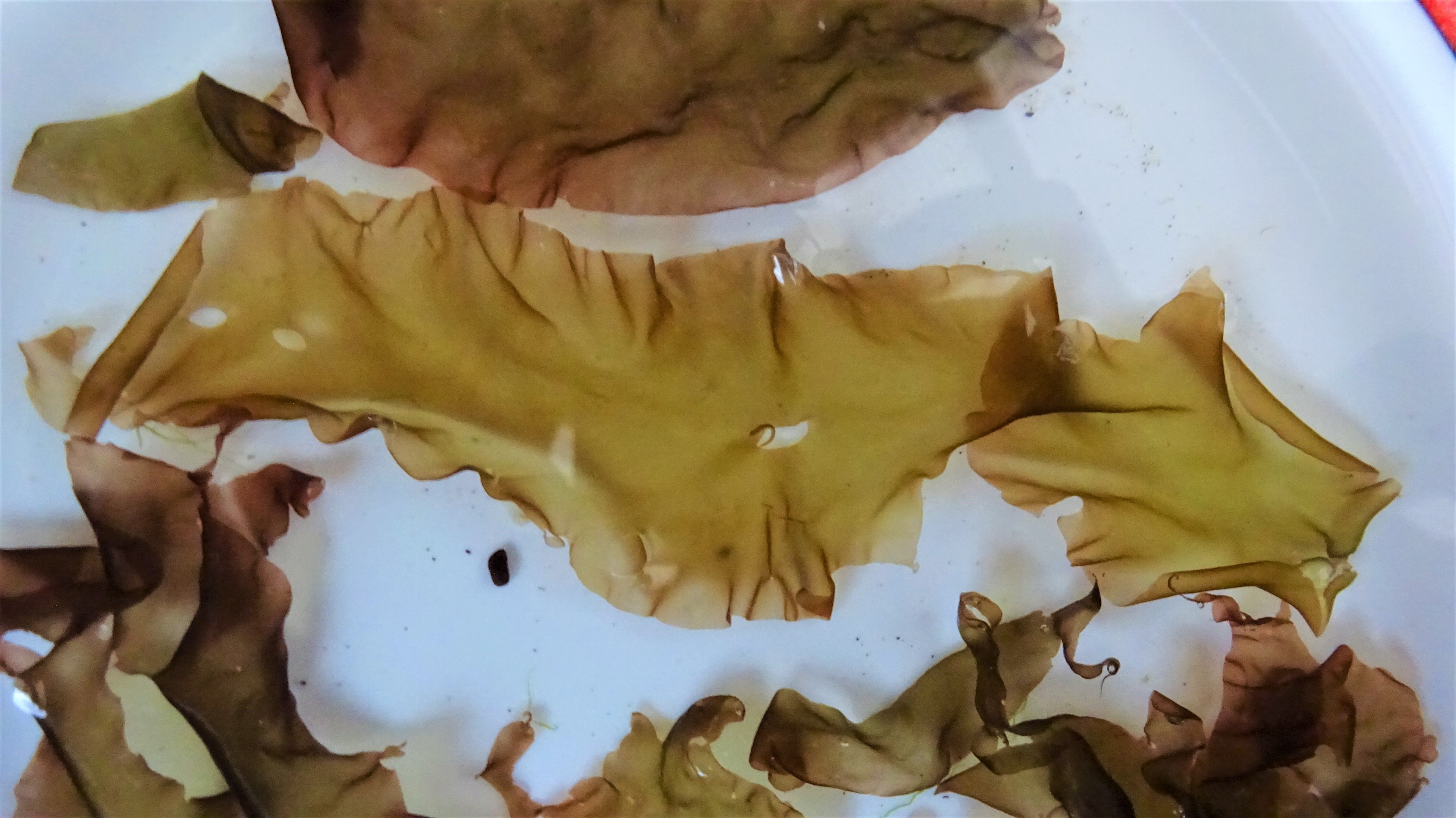 Porphyra umbilicalis. Laverbread. Edible alga. Irvine Harbour entrance, North Ayrshire. Bara lawr in Welsh.